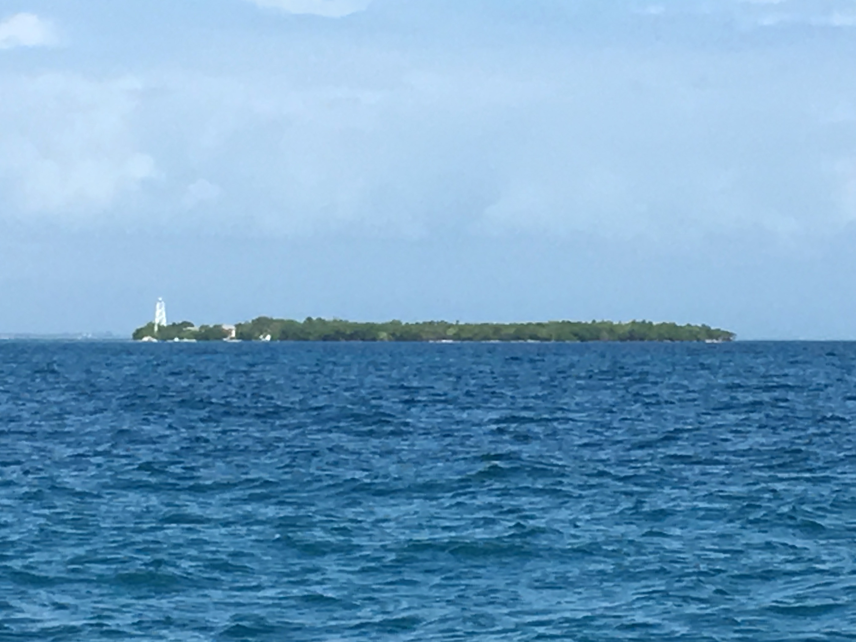 Bugle Caye, Belize, photographed from the south